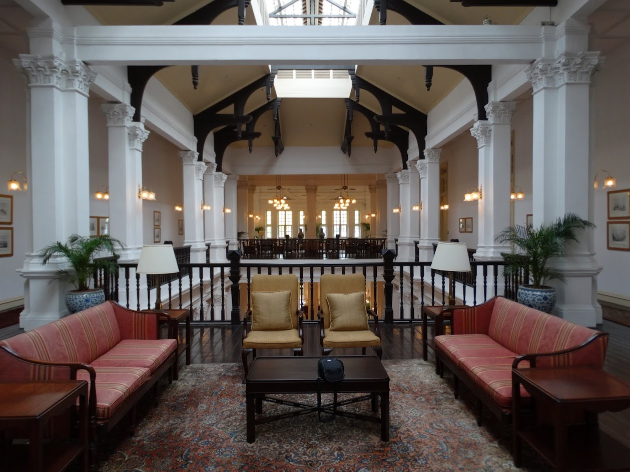 In Raffles hotel 1